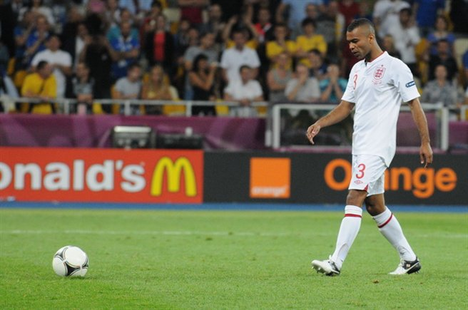 Ashley Cole at Euro 2012 match against Italy